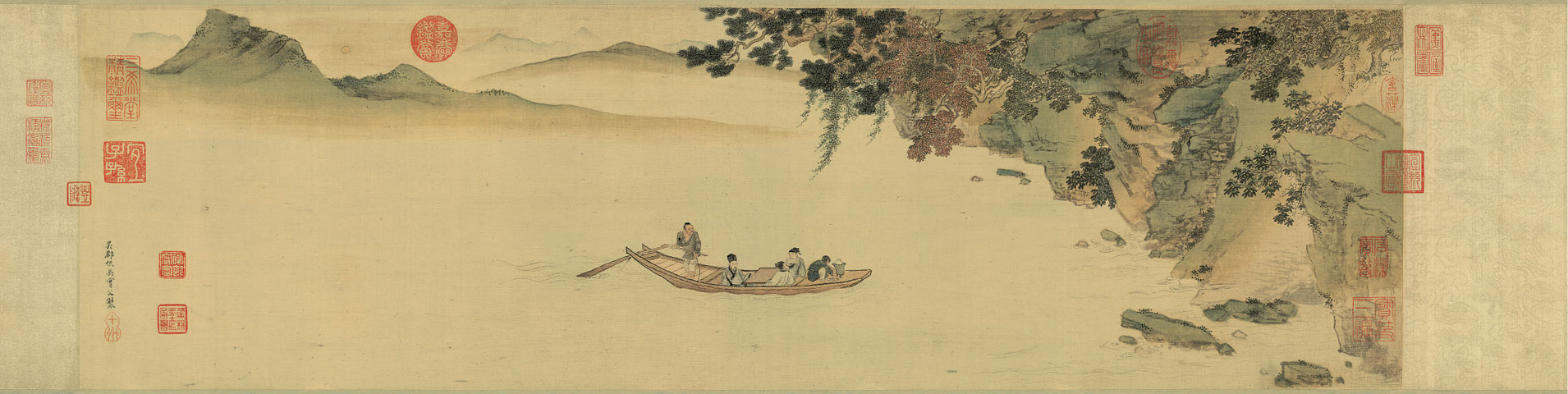 Red Cliff (赤壁圖) Qiu Ying (仇英, ca.1494-1552), Ming Dynasty (1368-1644) Handscroll, ink and colors on silk, 23.5 x 129 cm, Liaoning Provincial Museum, Shenyang